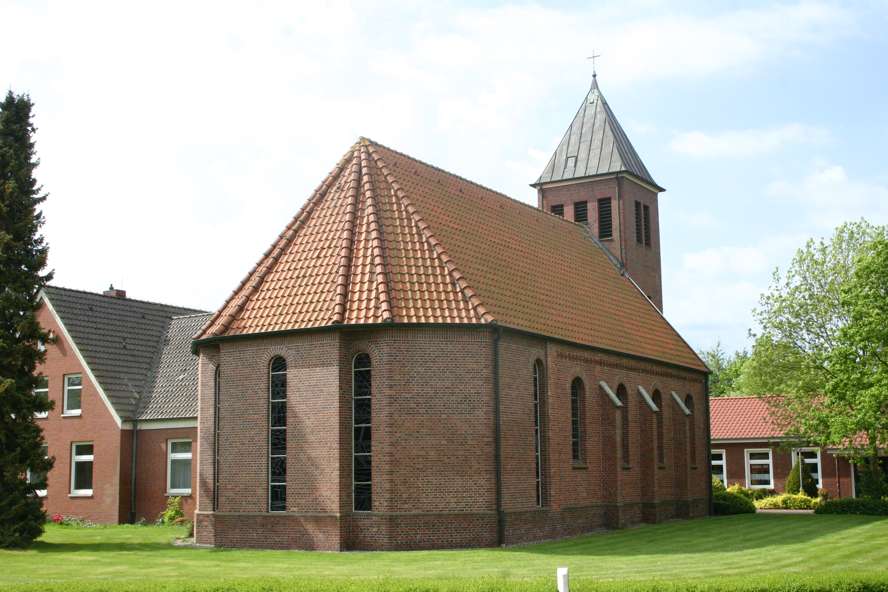 Historic Peace Church in Ockenhausen, district of Leer, East Frisia, Germany